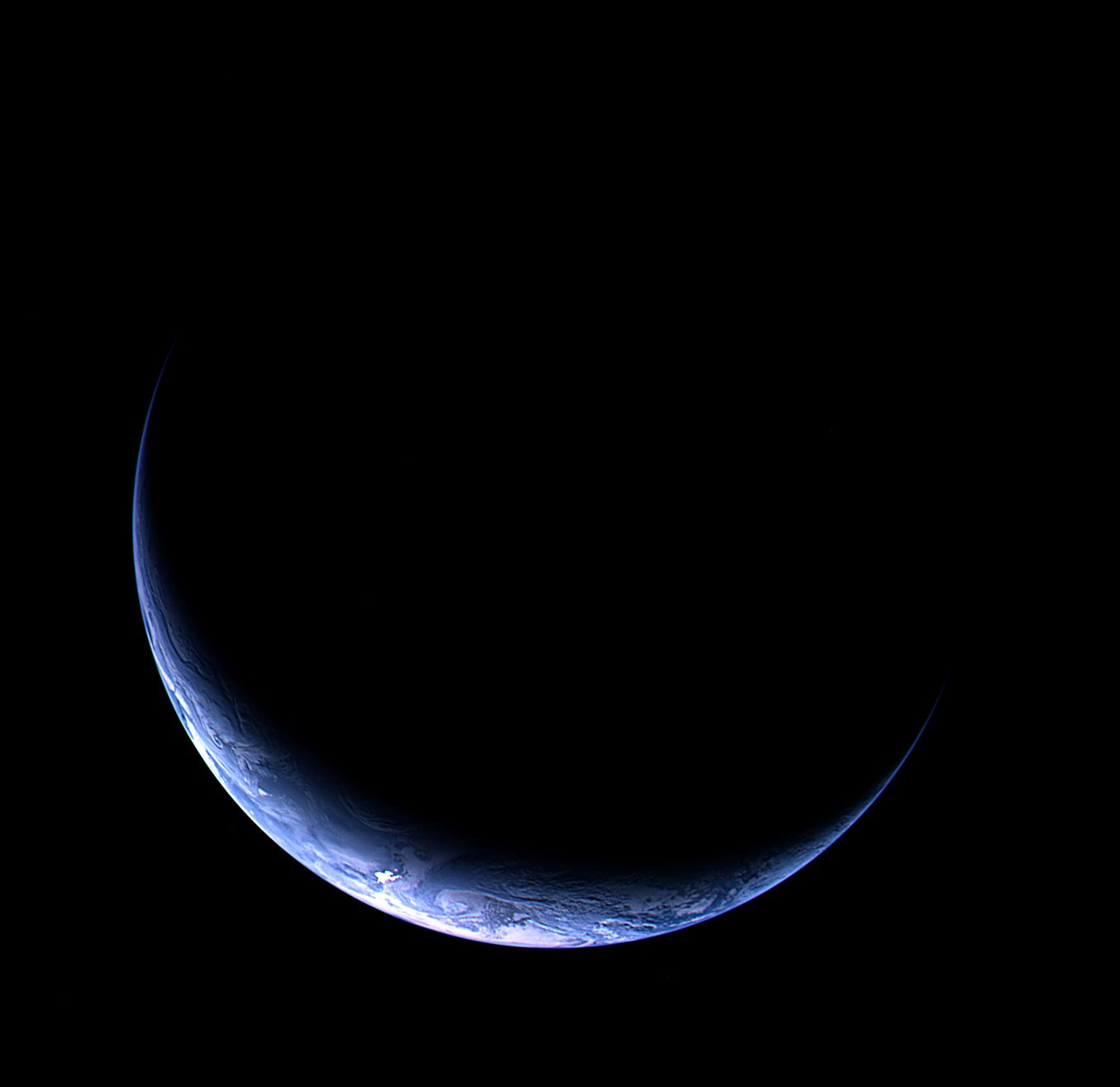 Rosetta viewed Earth in a thin crescent phase as it approached for its November 13, 2009 flyby. This image is one in a series taken to make an animation of the rotating Earth over a 24-hour period.